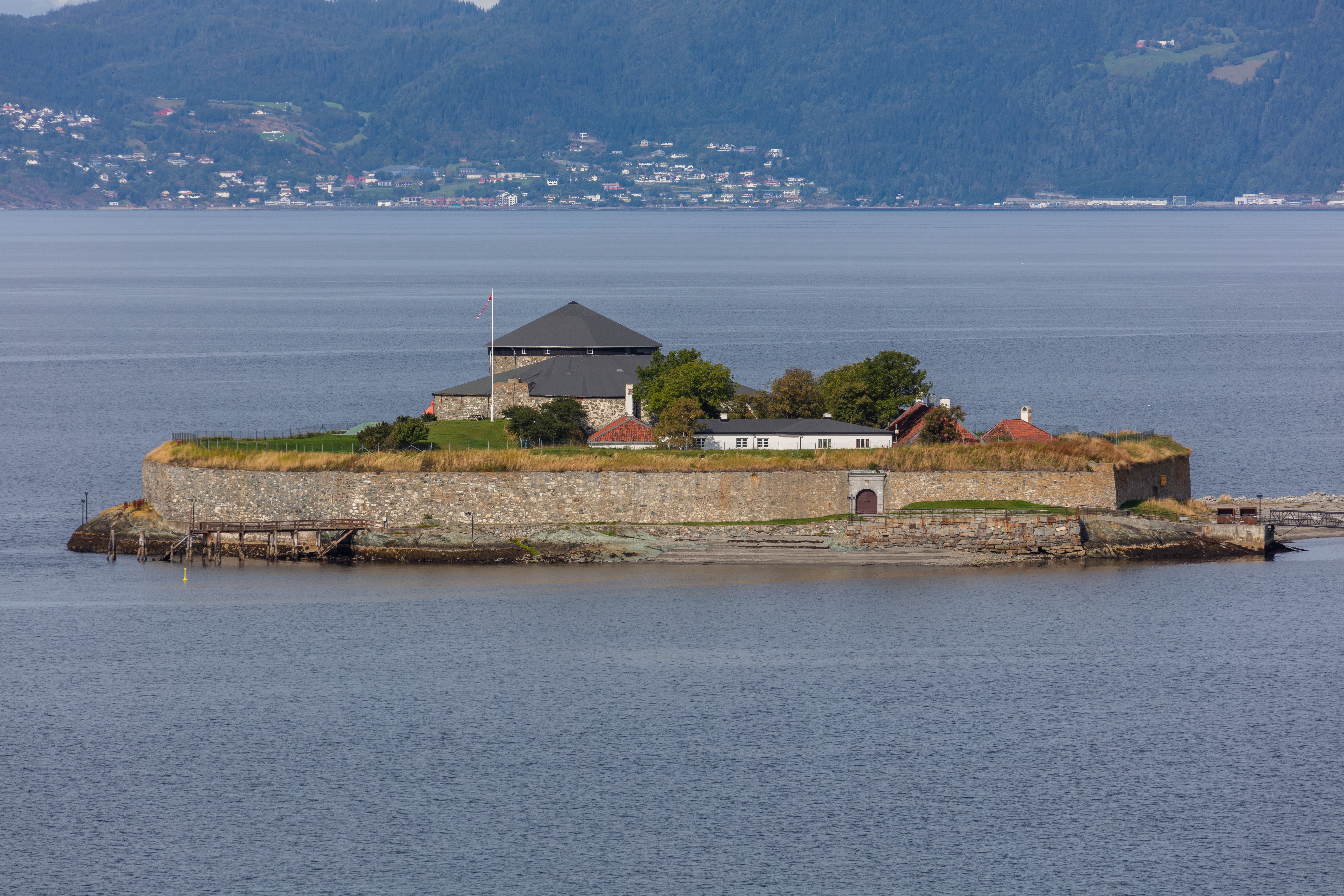 Munkholmen Isle, Trondheim, Norway